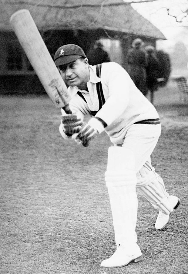 Herby Wade, captain of the South Africa cricket team which toured England in 1935. South Africa won the Test series 1-0 with four draws, their first series win in England.